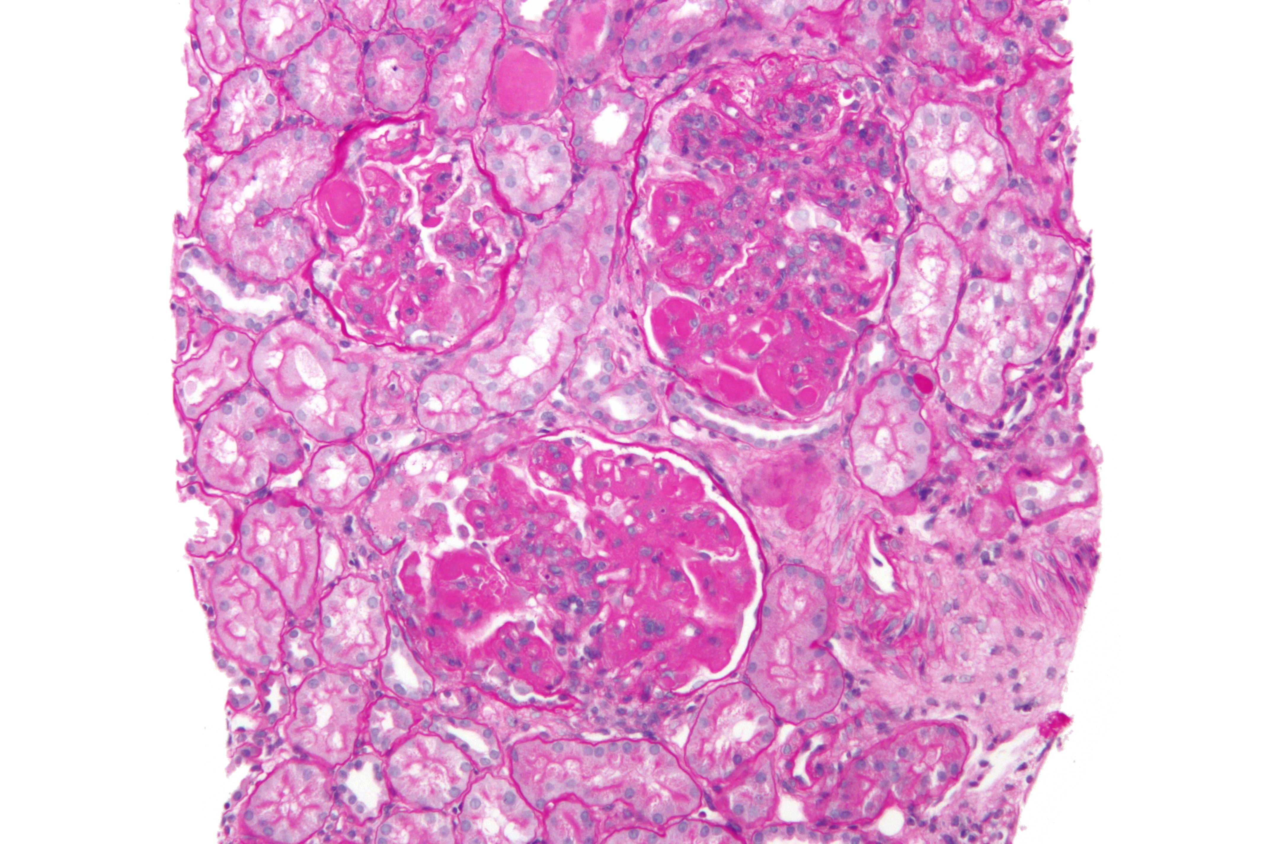 High magnification micrograph of diffuse proliferative lupus nephritis, class IV. PAS stain. Related images High mag. Very high mag. Very high mag.